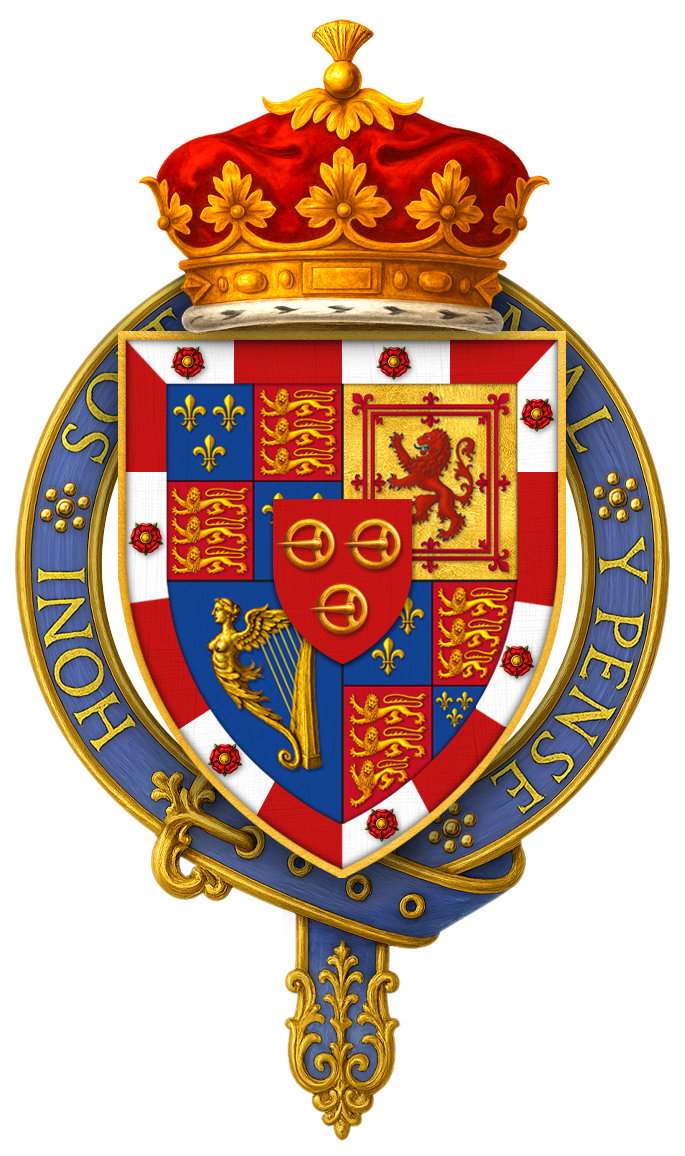 Shield of arms of Charles Gordon-Lennox, 5th Duke of Richmond, KG, PC